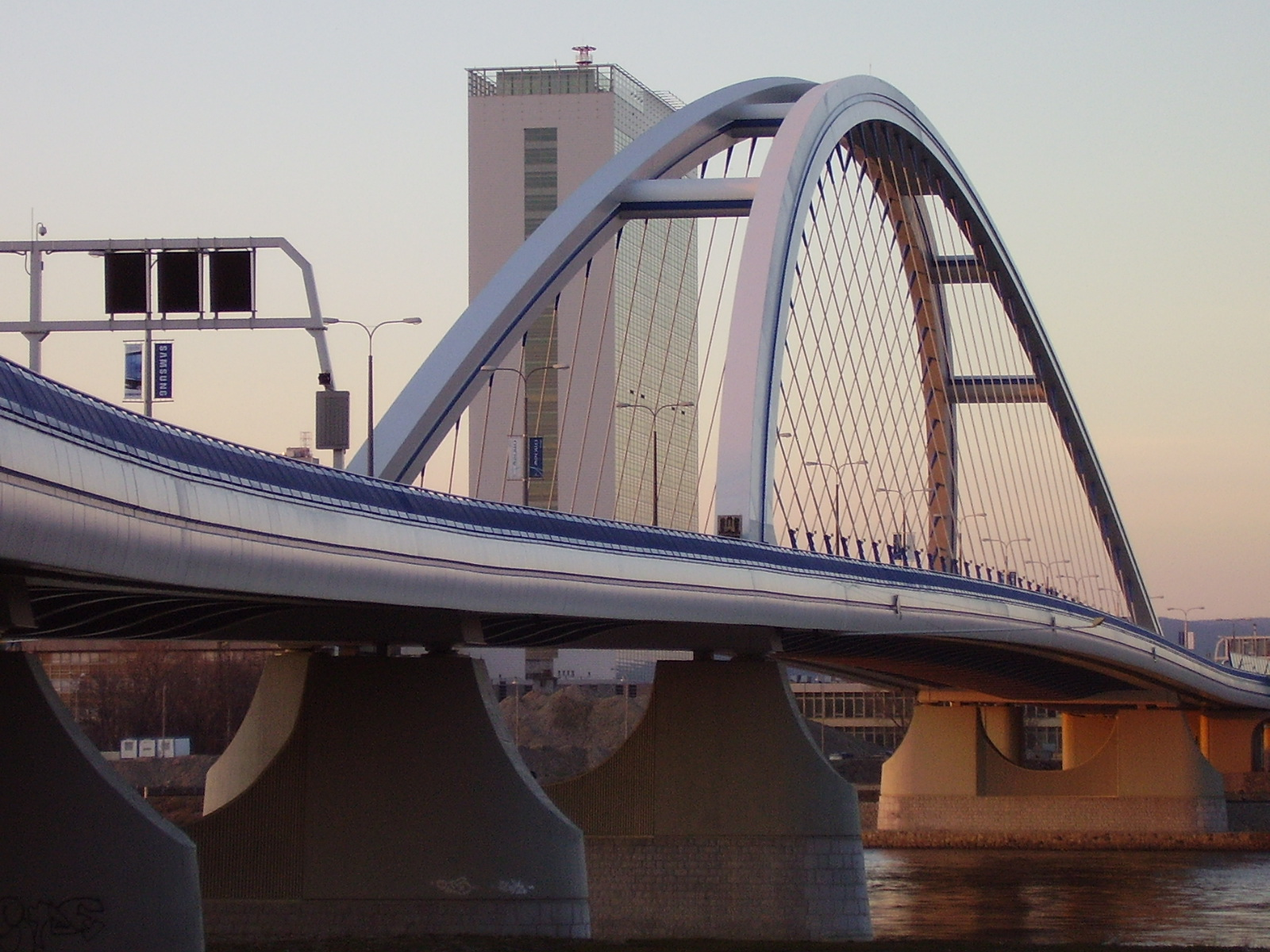 Most Apollo